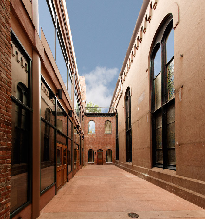 Courtyard of the Congregation Baith Israel Anshei Emes/Kane Street synagogue